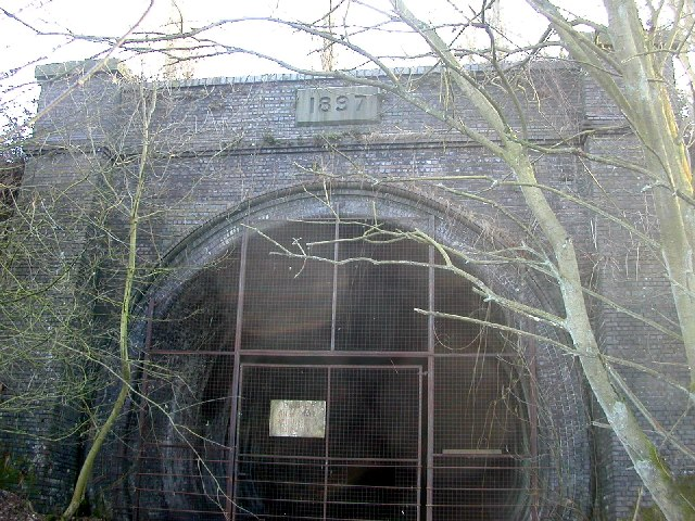 Lower Catesby. North Portal of Catesby Tunnel on Great Central Line built in 1897.